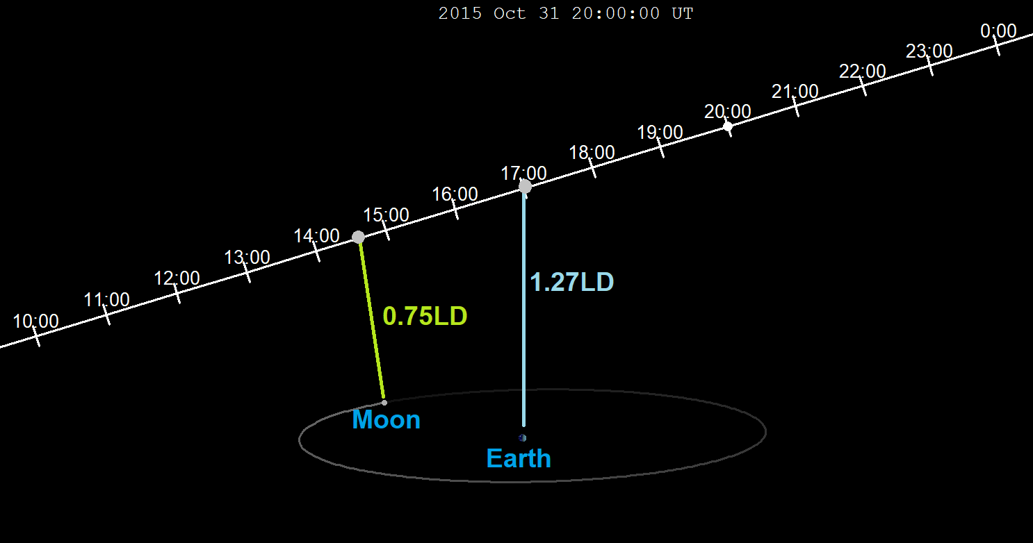 en:2015 TB145 flyby on 10/31/2015